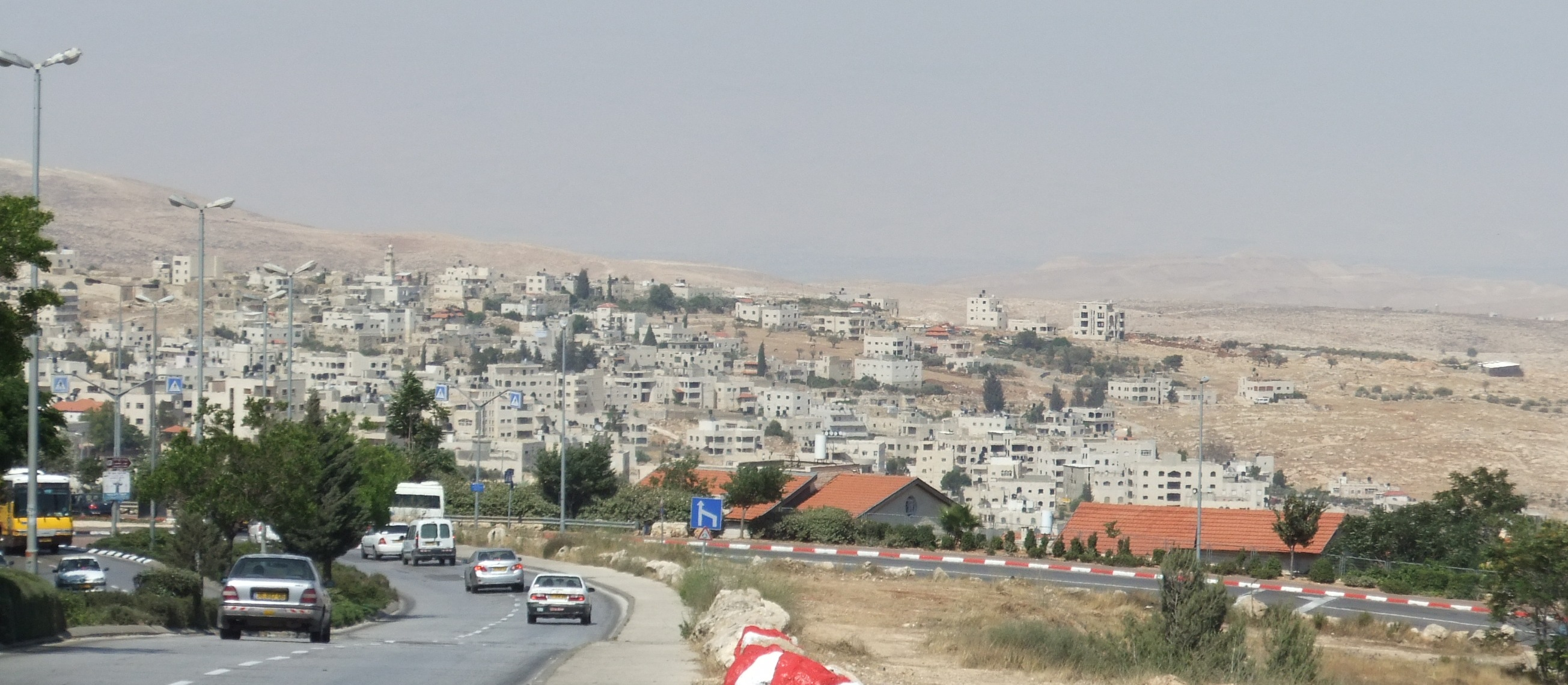 Chizme from Pisgat Ze'ev (view from teh west). The red roofed houses in the front of the picture belong to Pisgat Zeev